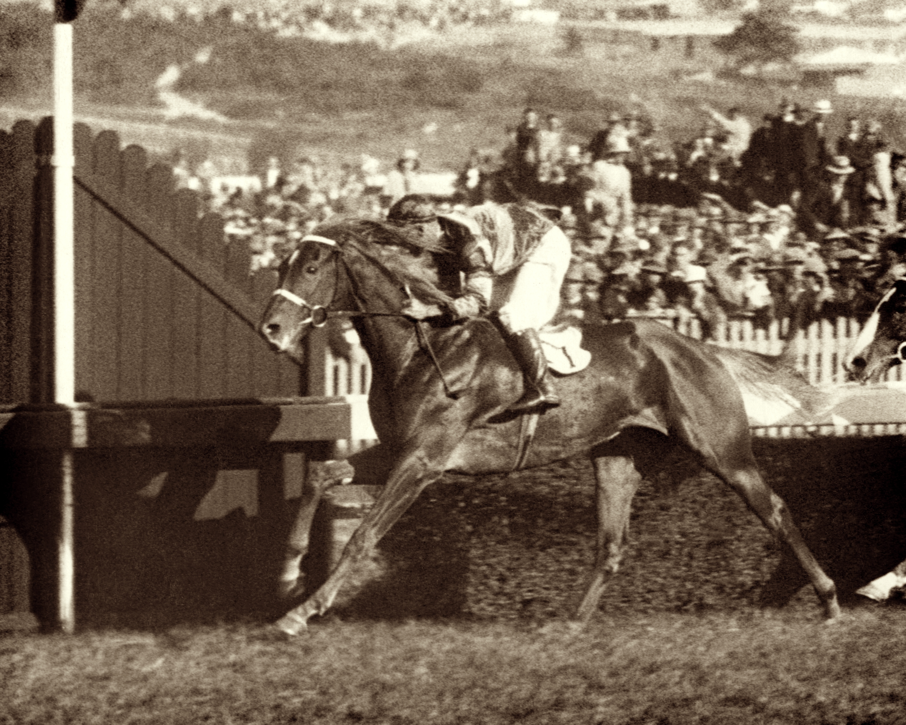 HIGH RESOLUTION SHADOW FREE SCAN FROM ORIGINAL PHOTO